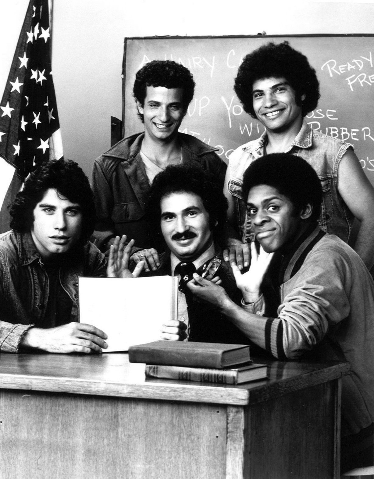 Main cast photo from the television program Welcome Back, Kotter.